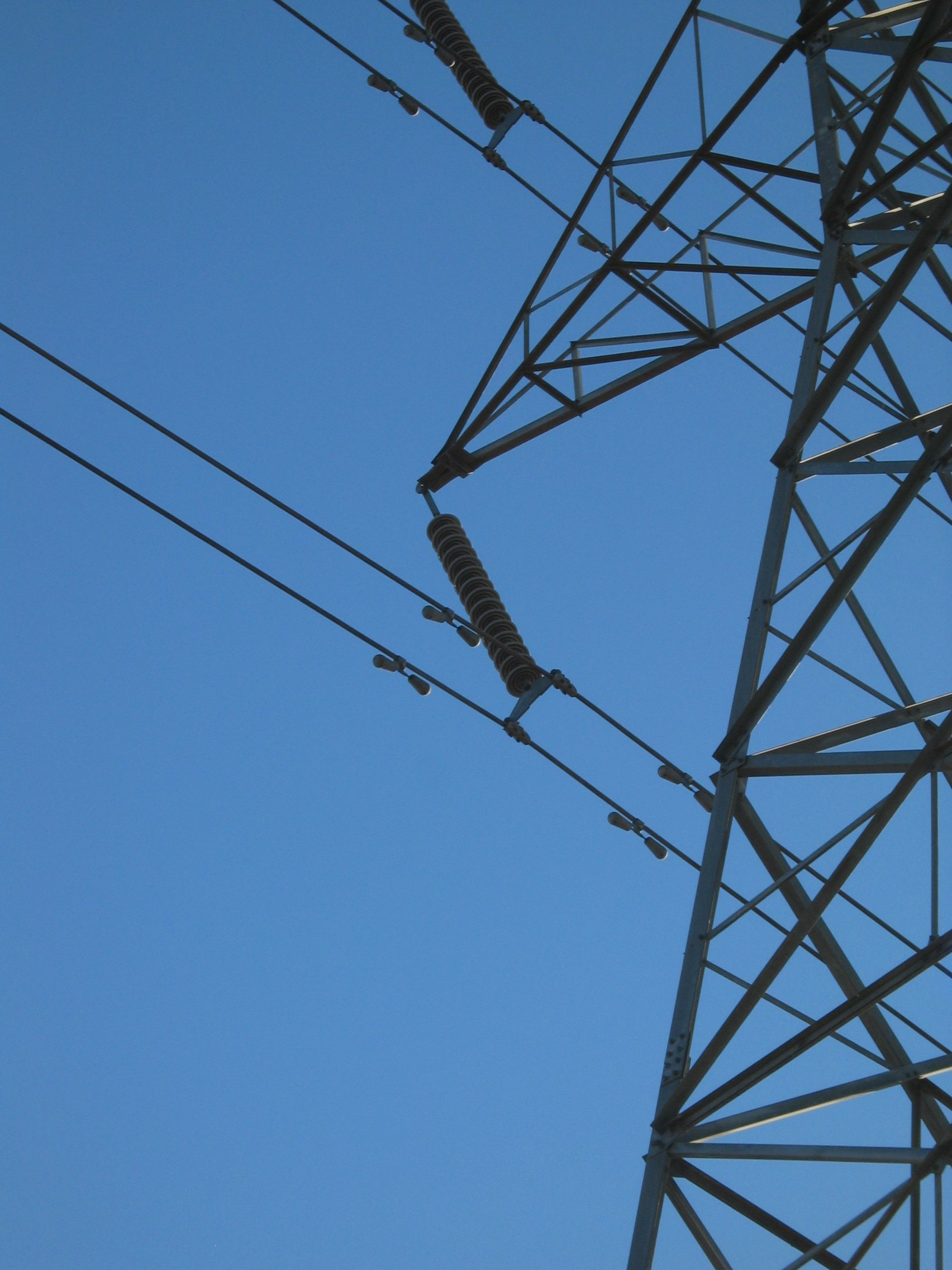 A set of Stockbridge dampers on some power lines north of Fresno, California.